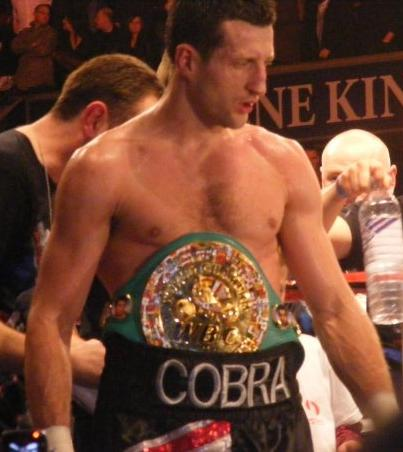 British boxer Carl Froch